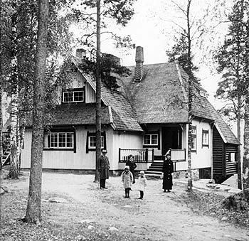 Ainola, home of Jean Sibelius, in 1915. Järvenpää, Finland